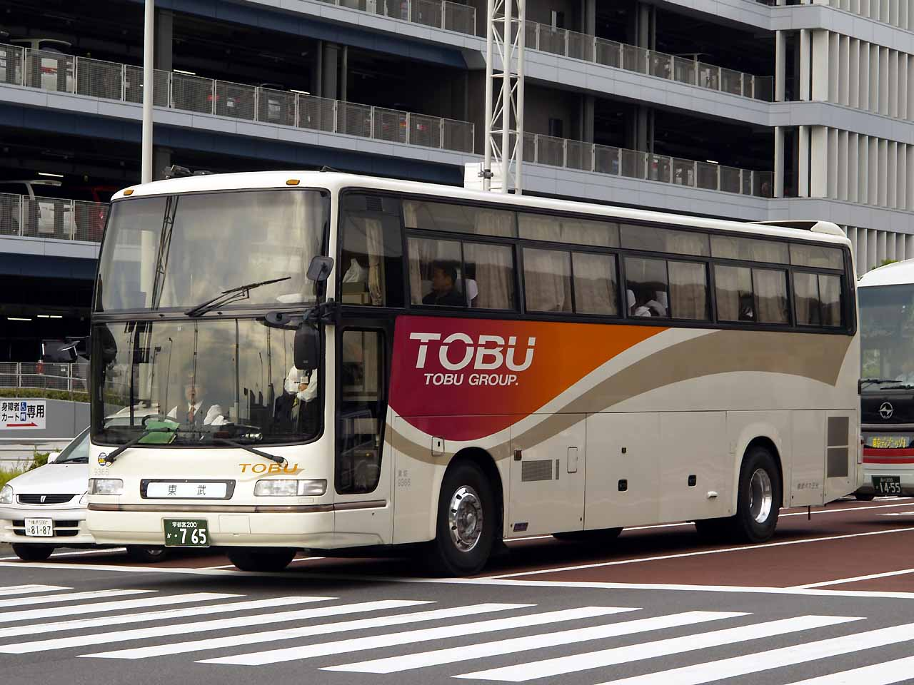 Fleet of Tobu Bus Nikko, for sightseeing chartered bus. Model: Hino Selega GJ U-RU3FSAB License plate: TGU200 KA-765 Place: Tokyo Internetional Airport